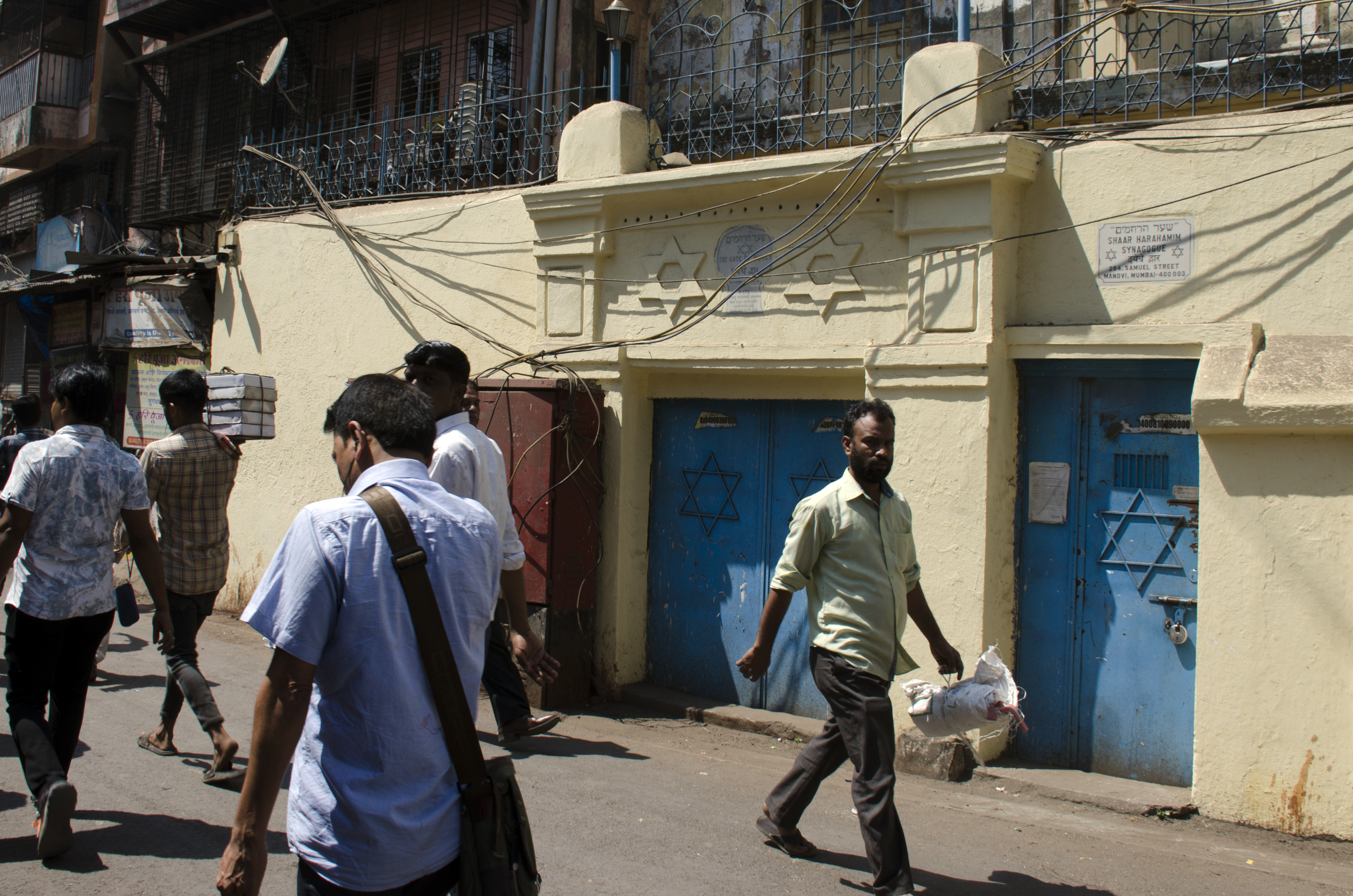 Shaar Harahamin Synagogue, Mumbai